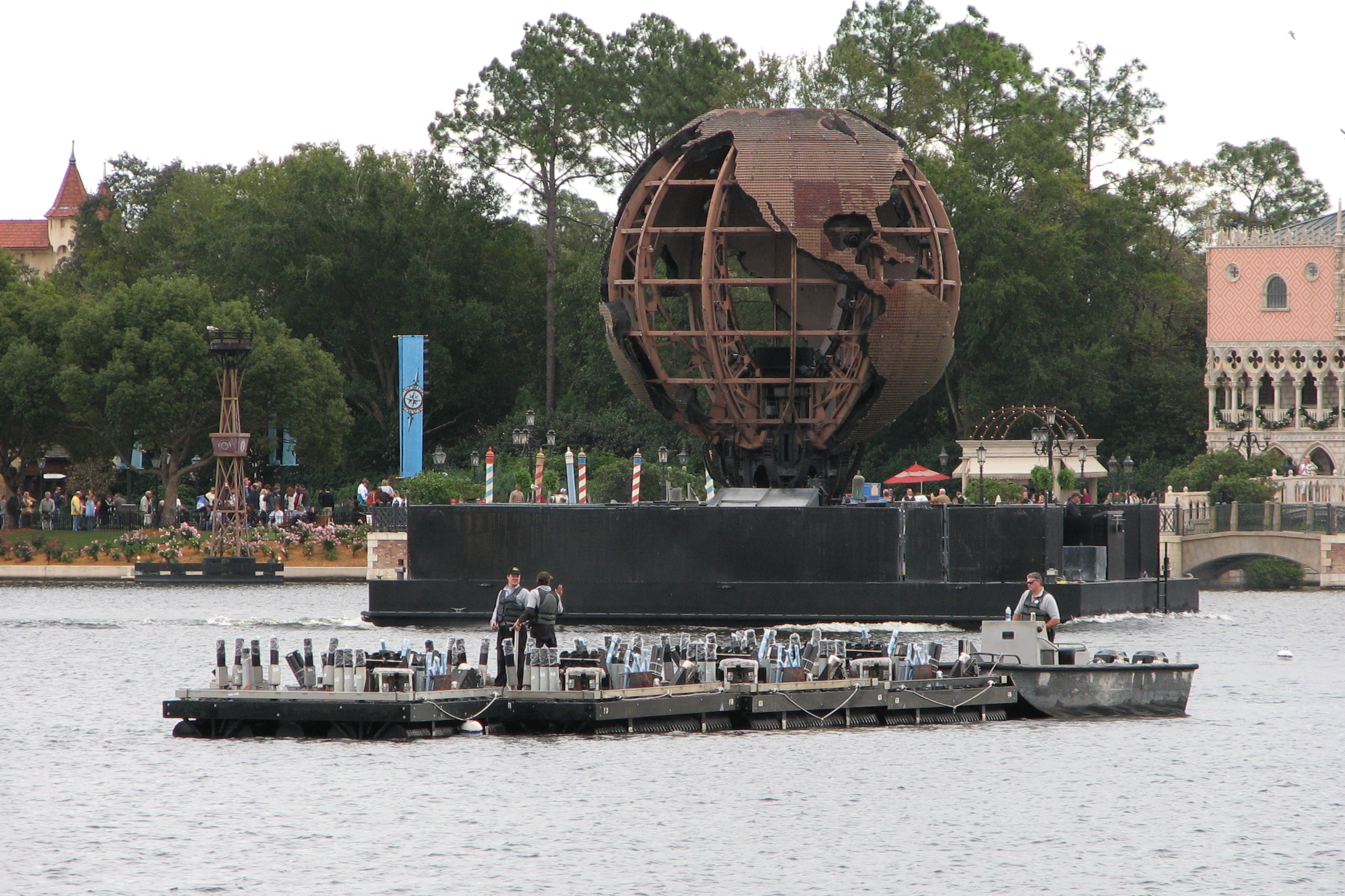 Men work on a fireworks barge as the Earth Globe is moved into place for the IllumiNations: Reflections of Earth fireworks show at Epcot in Florida.